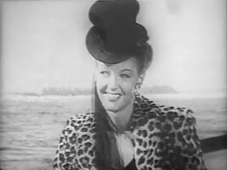 Vivian Blaine in the 1946 film Doll Face